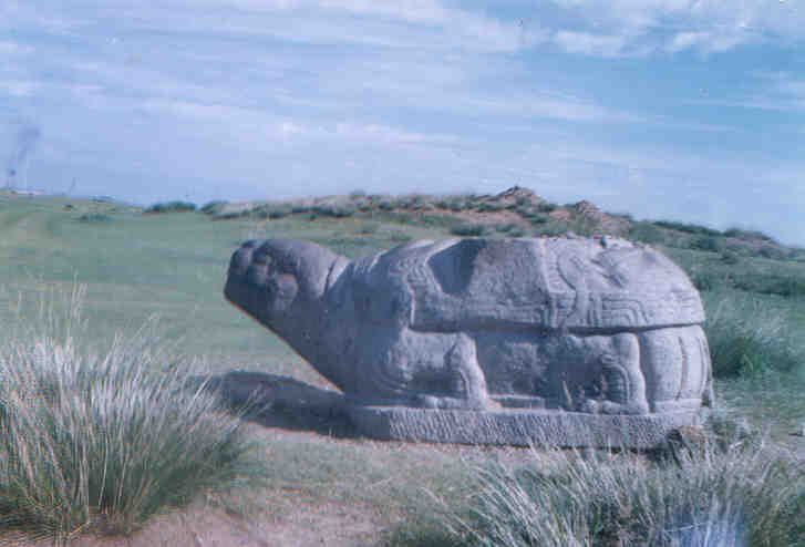 Karakorum Turtoise 13th century, Mongolia. Photo by Gantuya